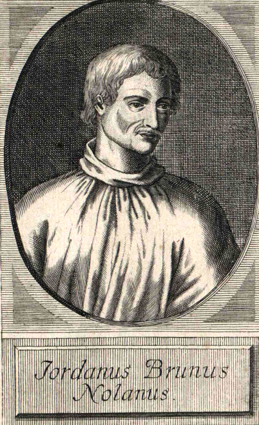 Giordano Bruno. Engraving by Mentzel, Johann Georg (1677-1743).